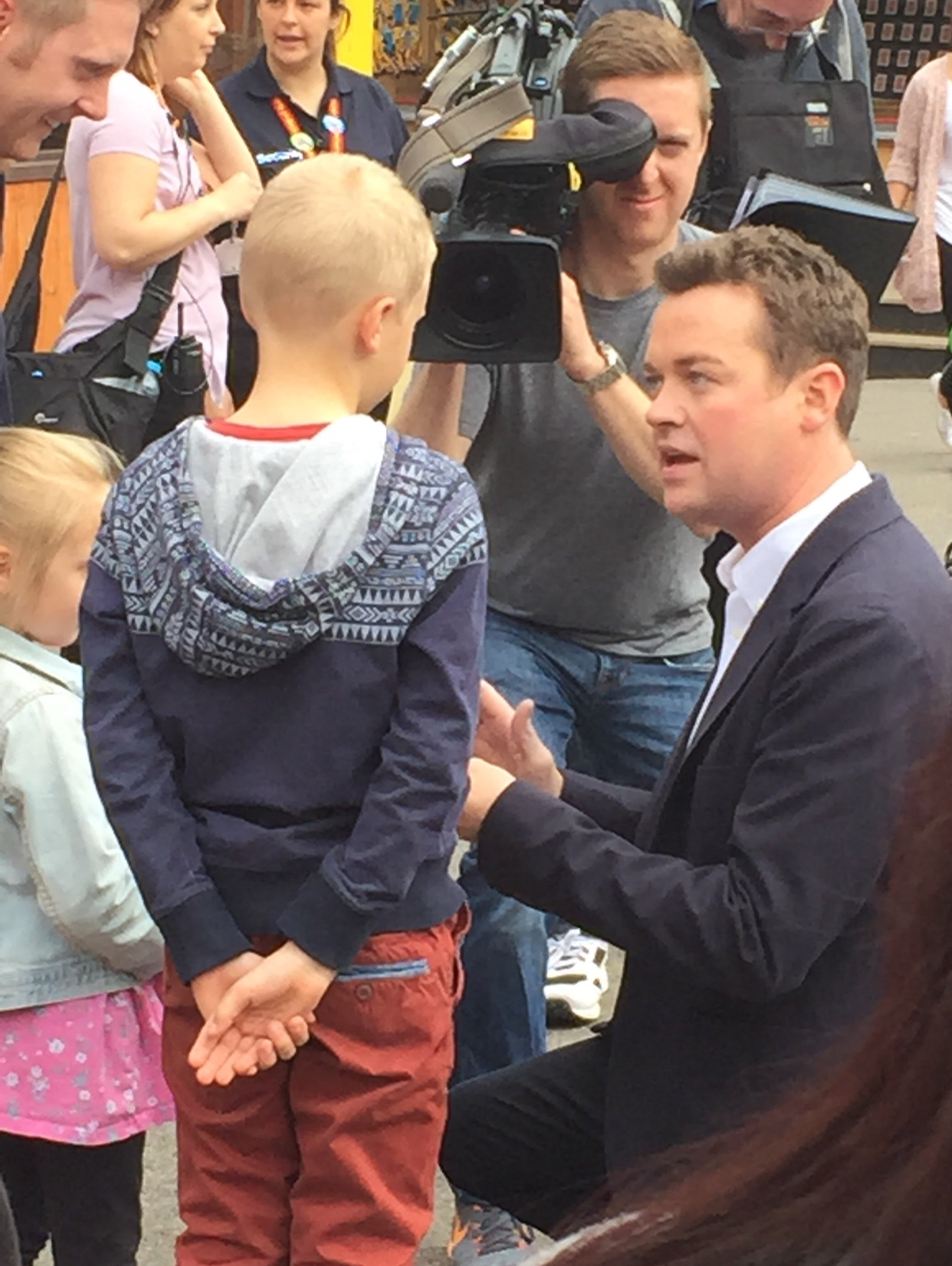 Stephen Mulhern at Chessington World of Adventures, filming for Tricky TV, in May 2015. He is kneeling beside a child, performing a magic trick.